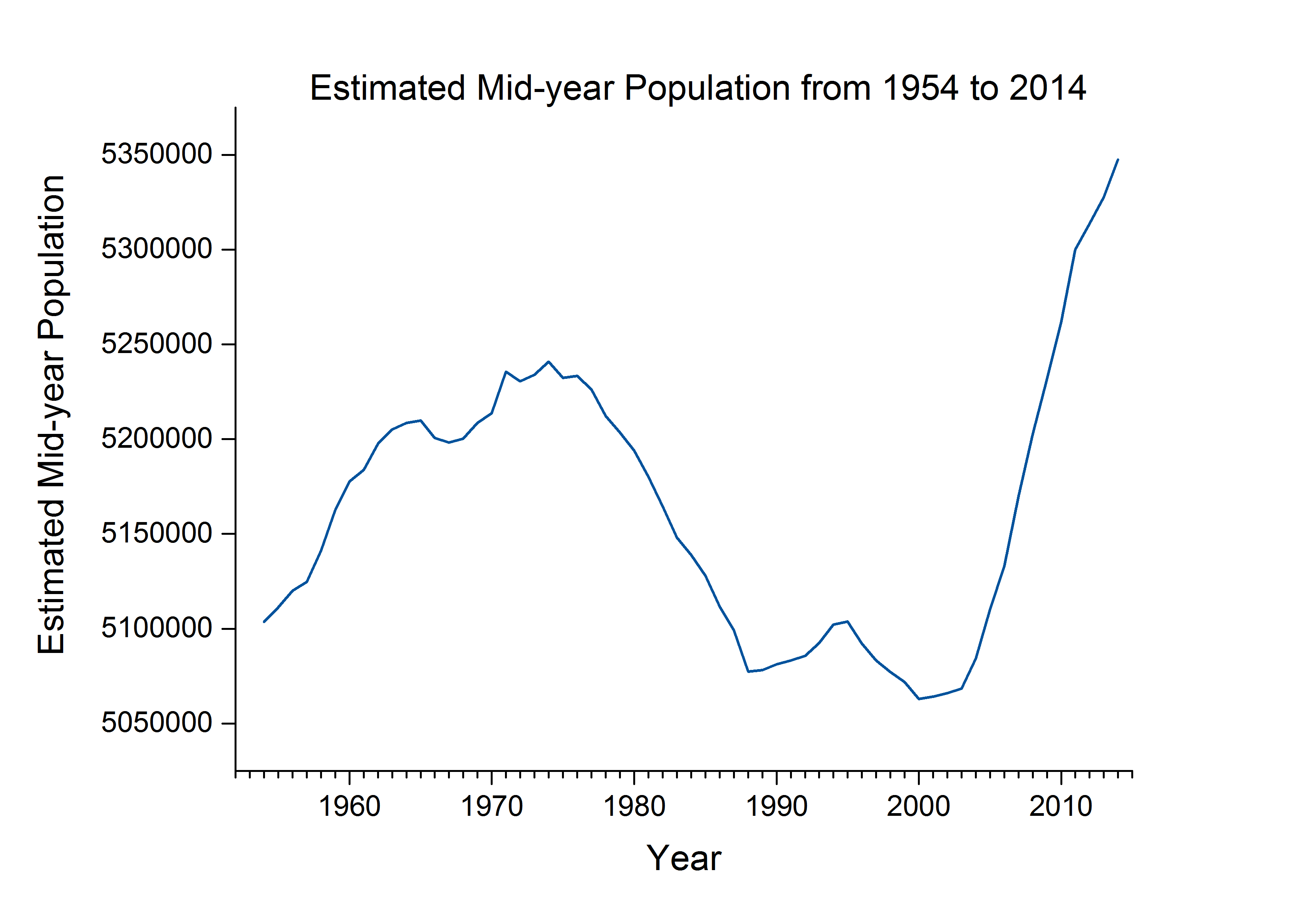 Mid-year estimates of Scotland's population from 1954 to 2014, data from National Records of Scotland.